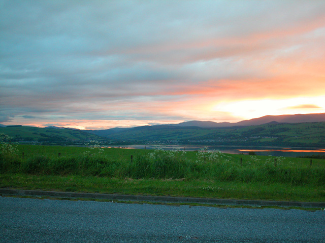 Scottish Sunset. Looking across the Cromarty Firth towards Dingwall.